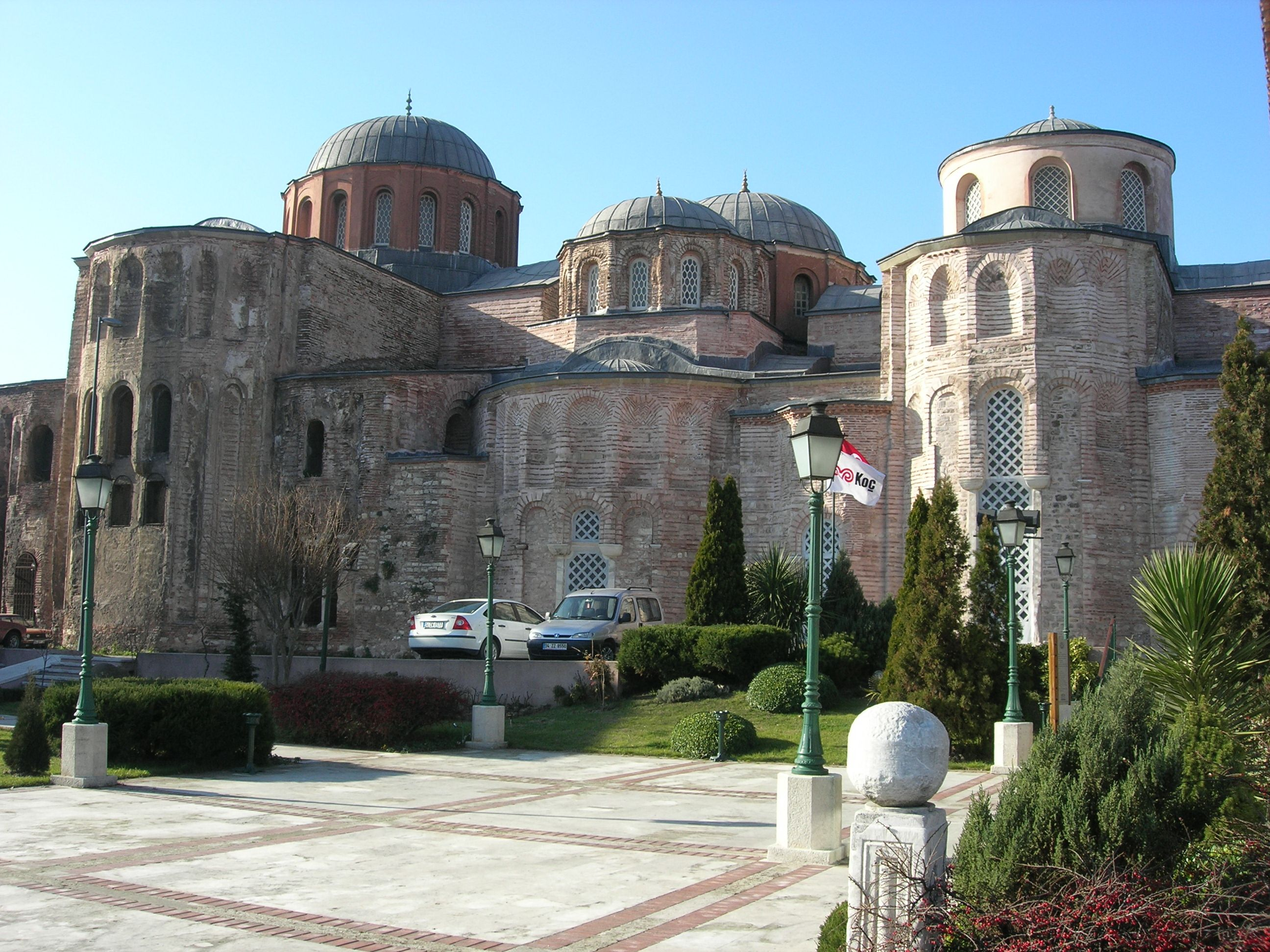 The former Church of the Pantokrator( today mosque of Zeyrek) in Istanbul viewed from SE